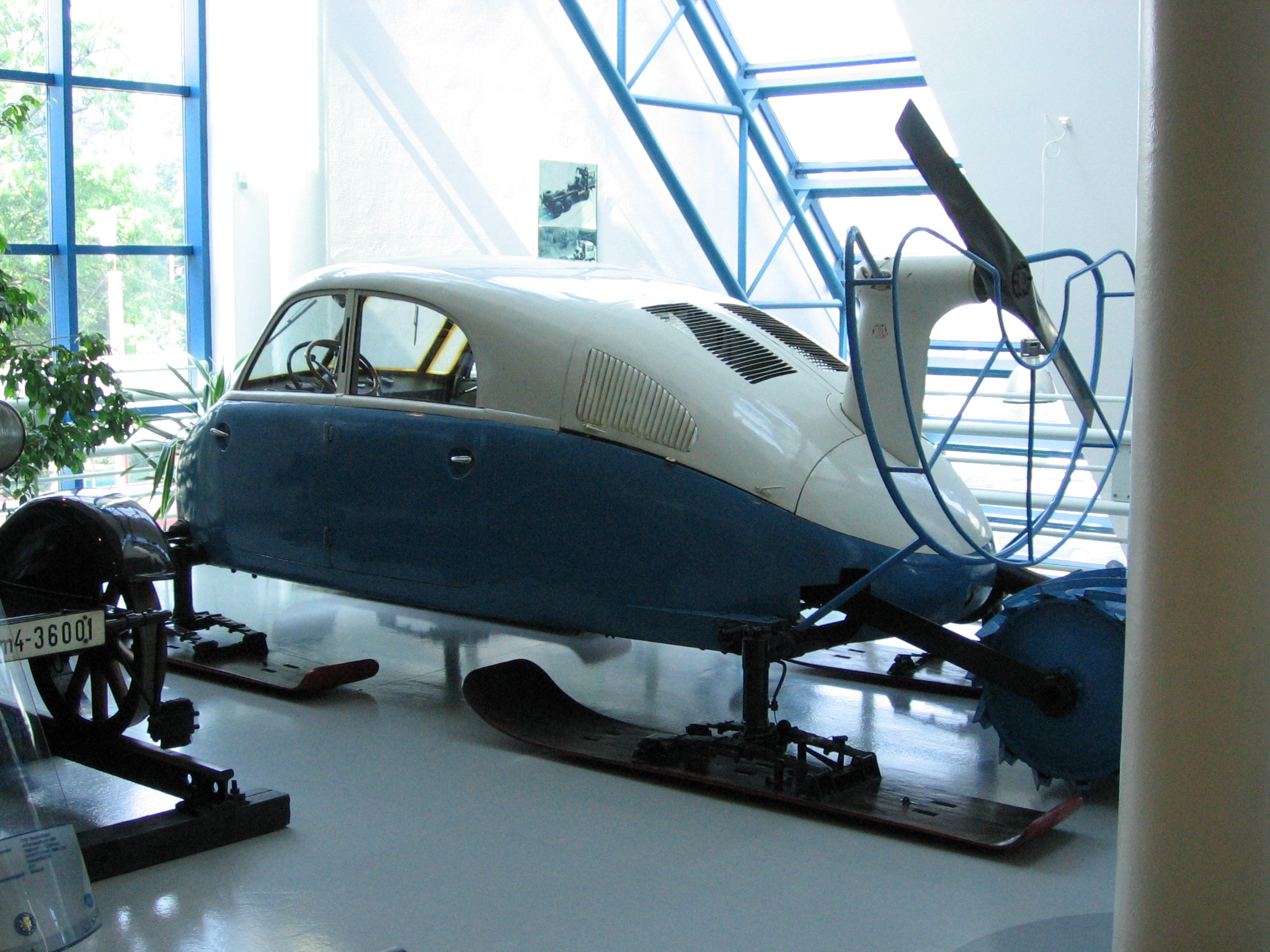 Aerosledge Tatra V 855 in Technical museum Tatra in Kopřivnice, Czech Republic